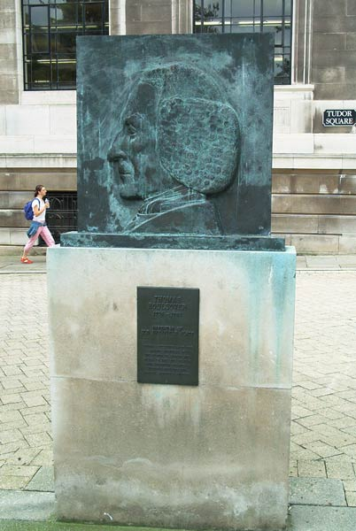 Memorial to Thomas Boulsover at the site of his workshop. Tudor Square, Sheffield, England. Image slightly modified with Adobe Photoshop to remove a bird dropping. © Jeremy Atherton 2002.